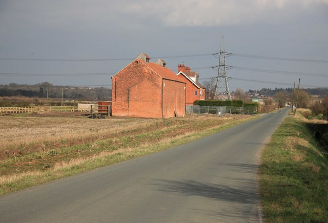 Barn and Beck House on the Old Trent Road Was this a barn or was it used for something else? On the Old Trent Road to the shipyard by the River Trent. Gainsborough is on the other side of the river.